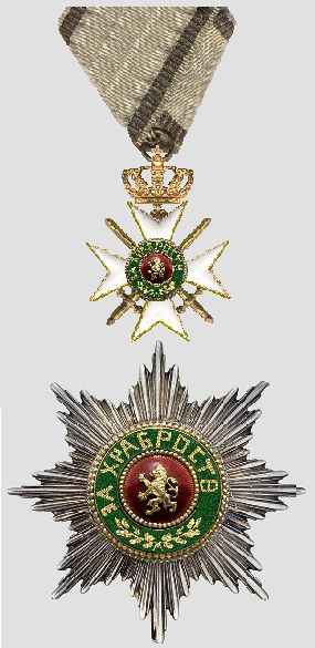 Star and knight-cross of the Bulgarian Order for Bravery.